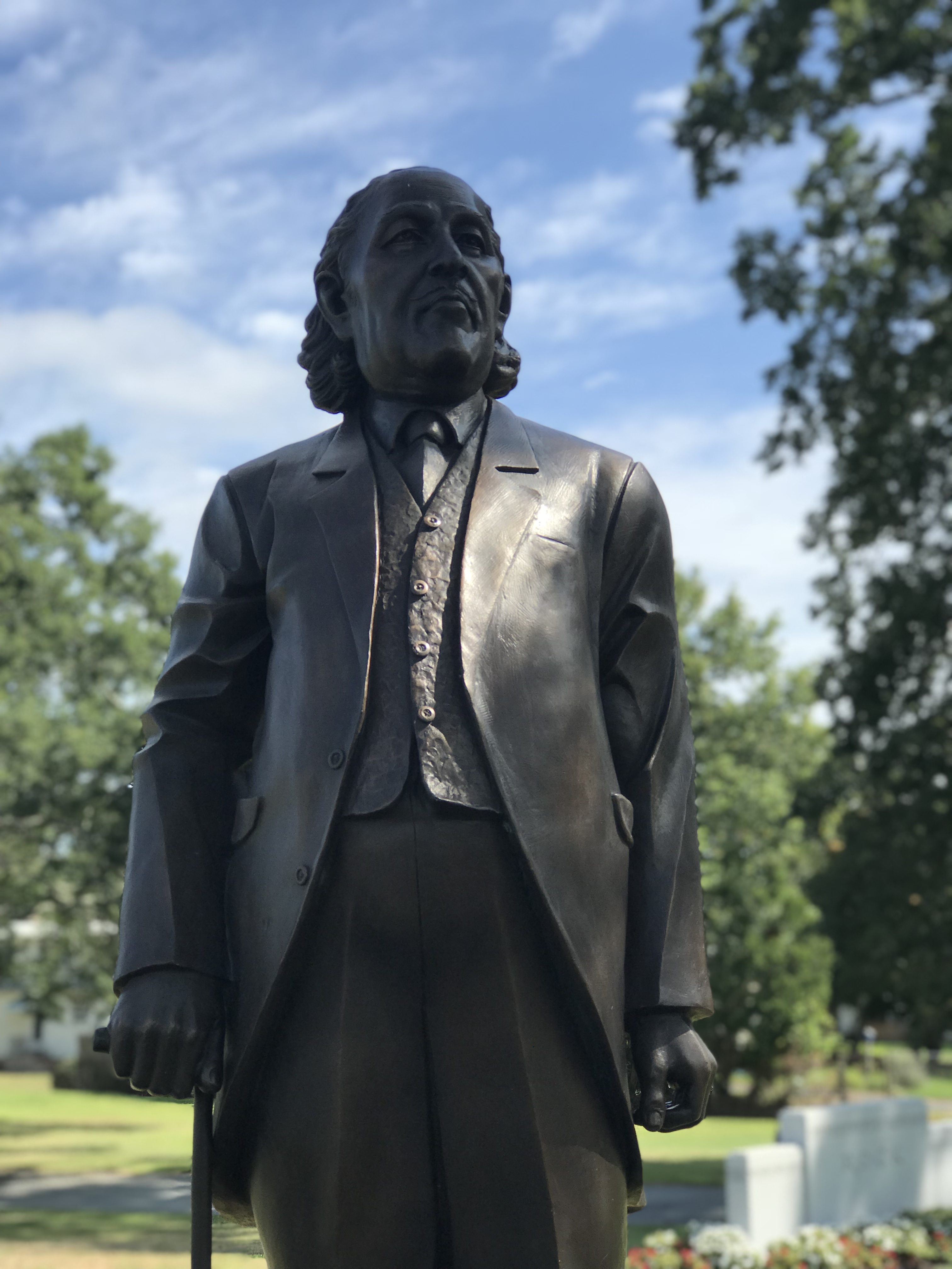 Statue of Marcelino Manuel da Graca outside his mausoleum in New Bedford, MA.